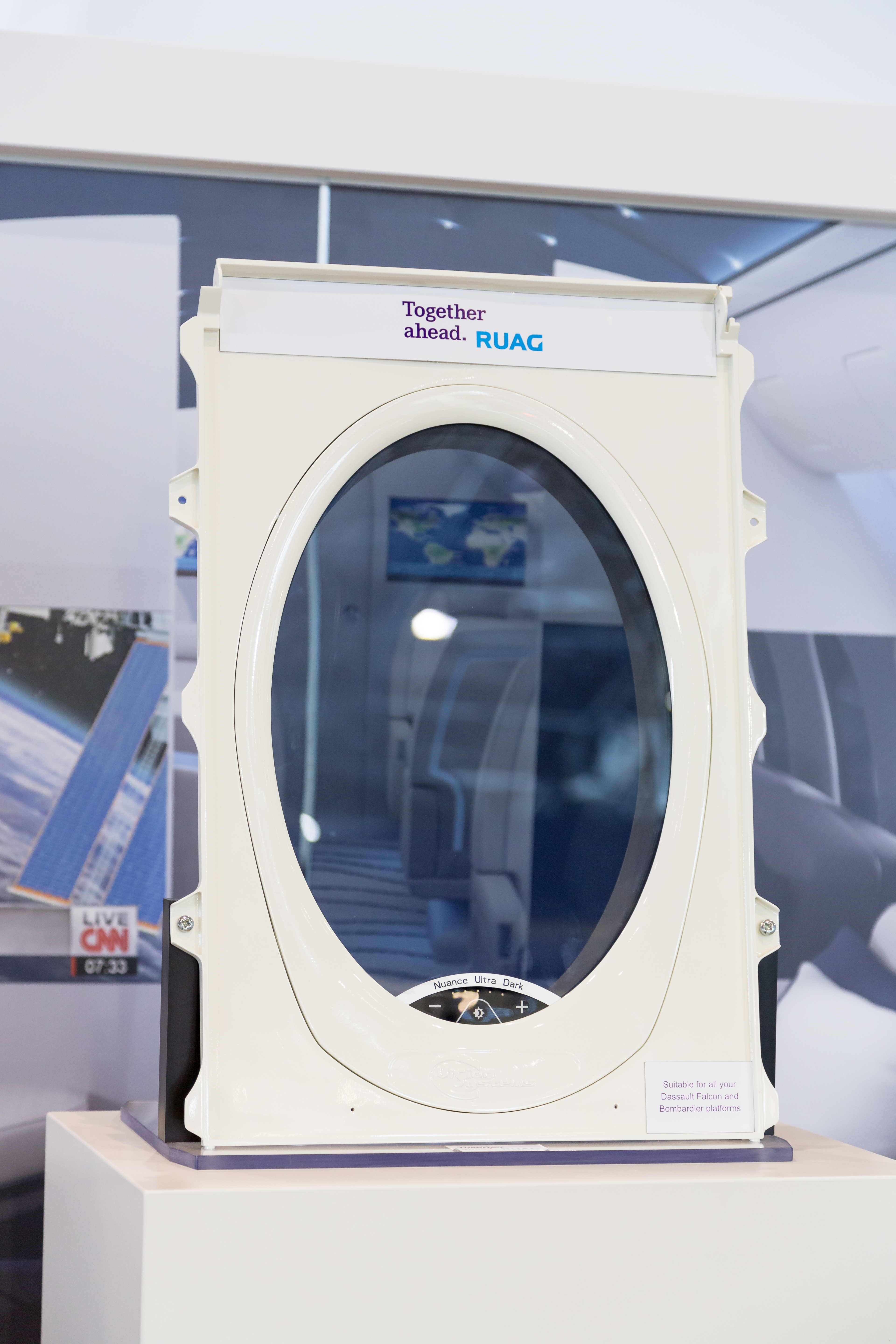 Electrochromatic aircraft cabin window by RUAG at EBACE 2018